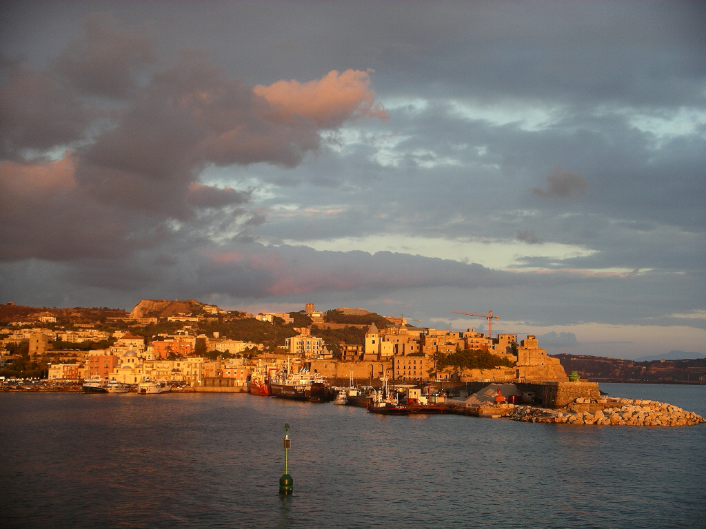 Pozzuoli during sunset